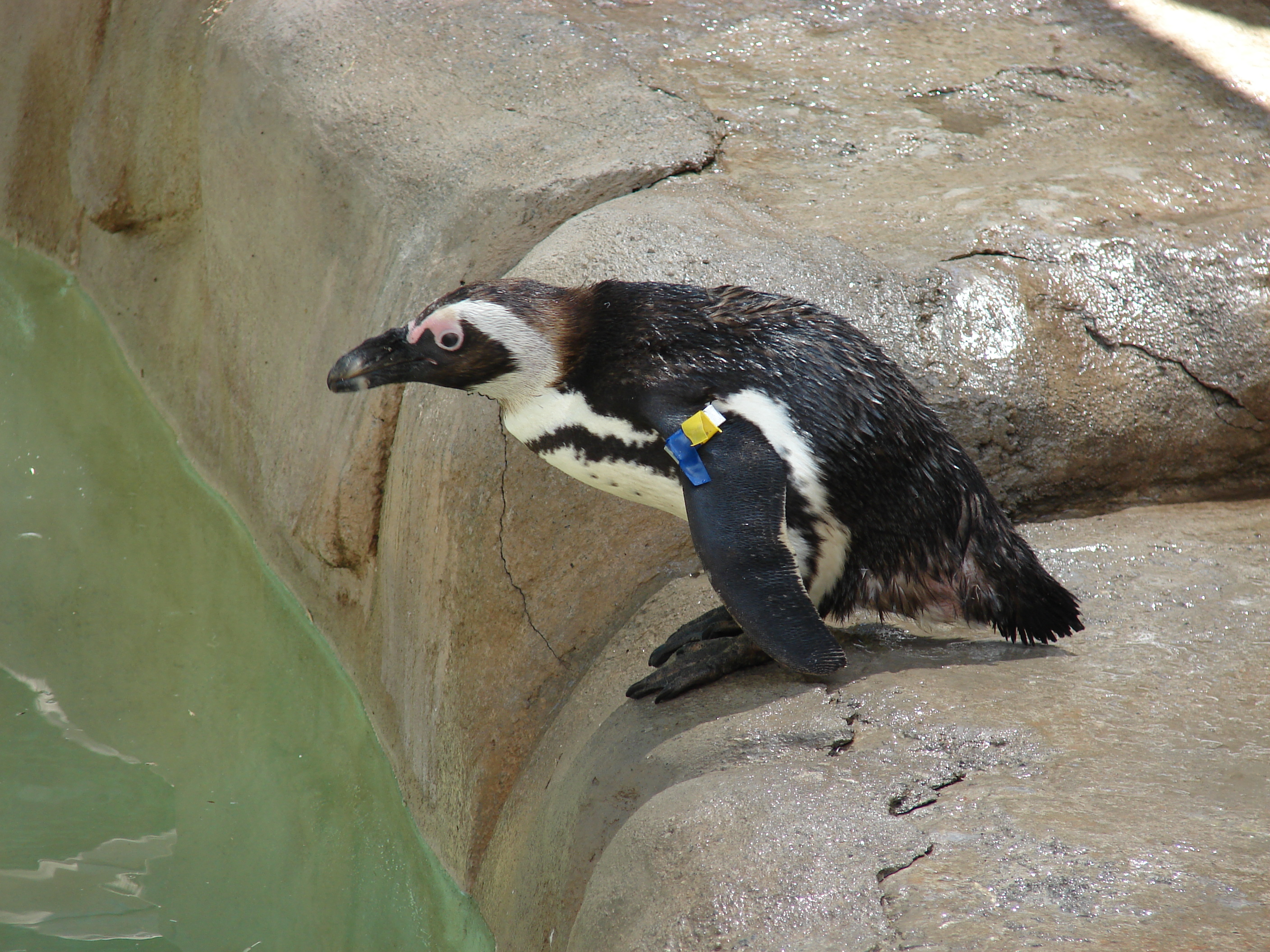 One of the penguins at Hogle Zoo, July 2009